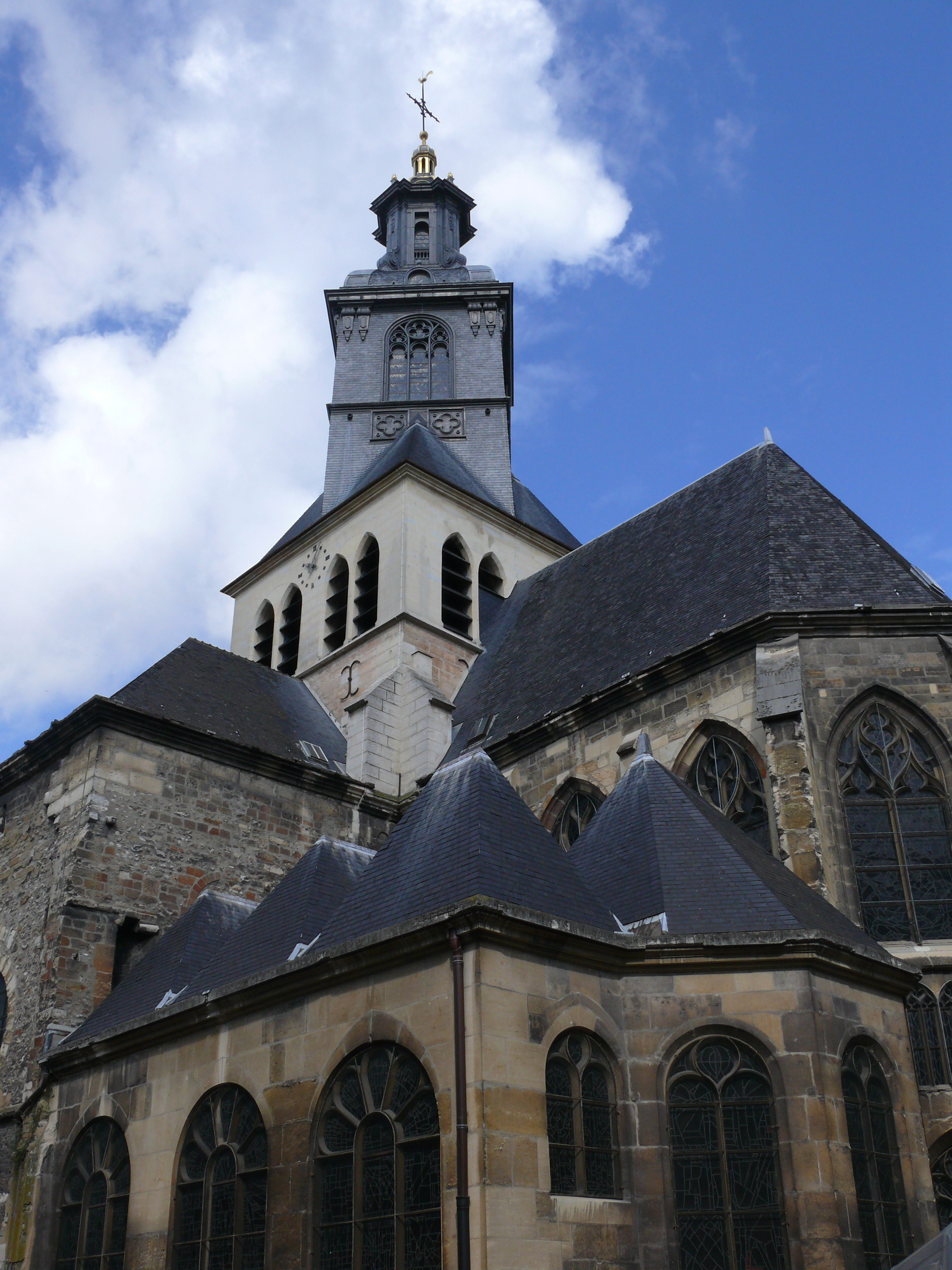 The St-James Church (Eglise St-Jacques), is apart from the St Remi basilica, the oldest church in Reims. Construction was started in the 12th century.